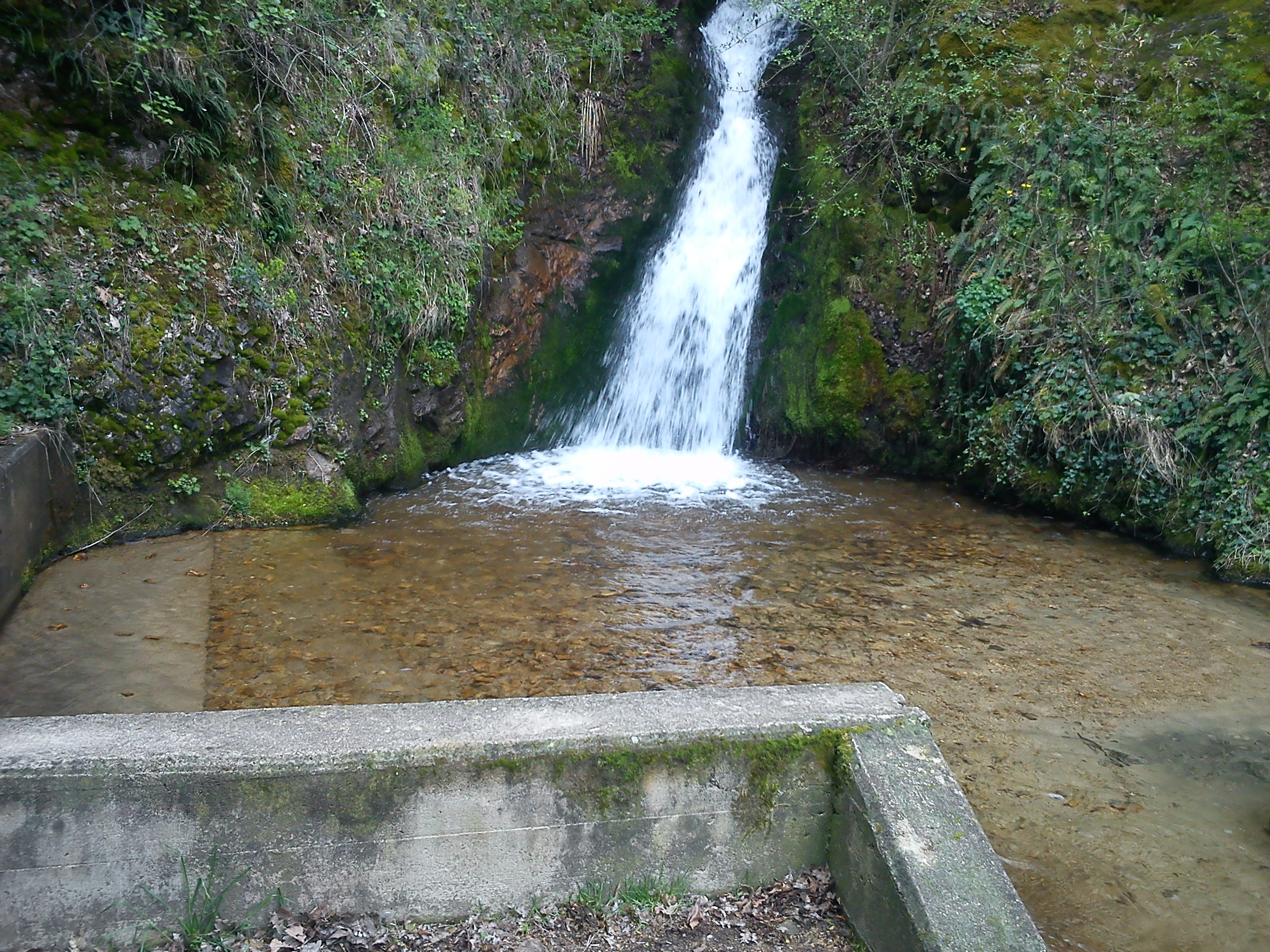 Carevi Kuli